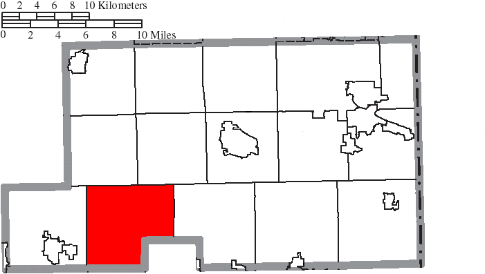 Map of the municipal and township boundaries of Mahoning County, Ohio, United States, as of the 2000 census, with the location of Goshen Township highlighted. Township borders are shown only in unincorporated areas in order to differentiate incorporated and unincorporated areas more clearly.